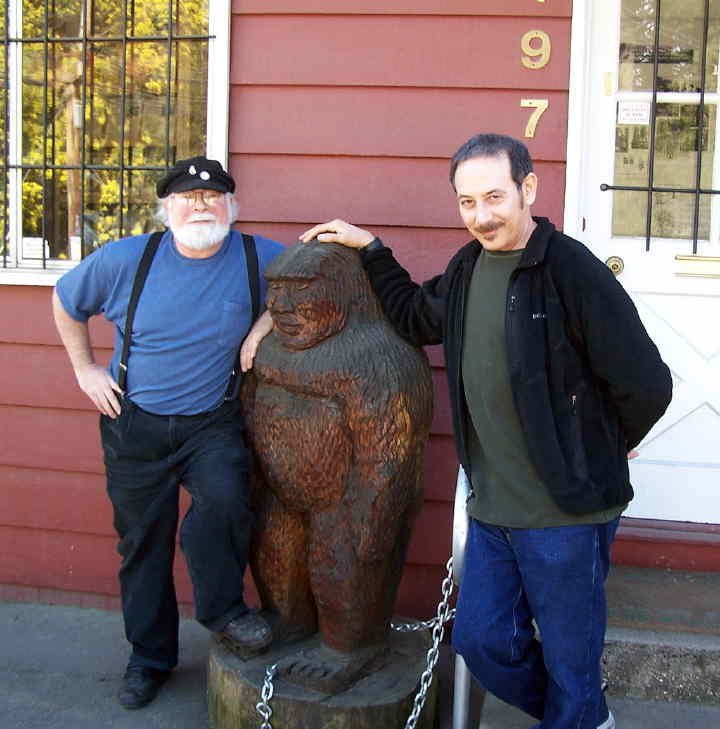 Michael Rugg, curator of the Bigfoot Discovery Museum, and American actor Paul Reubens